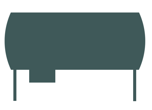 The image shows a draft of a simple underwater habitat